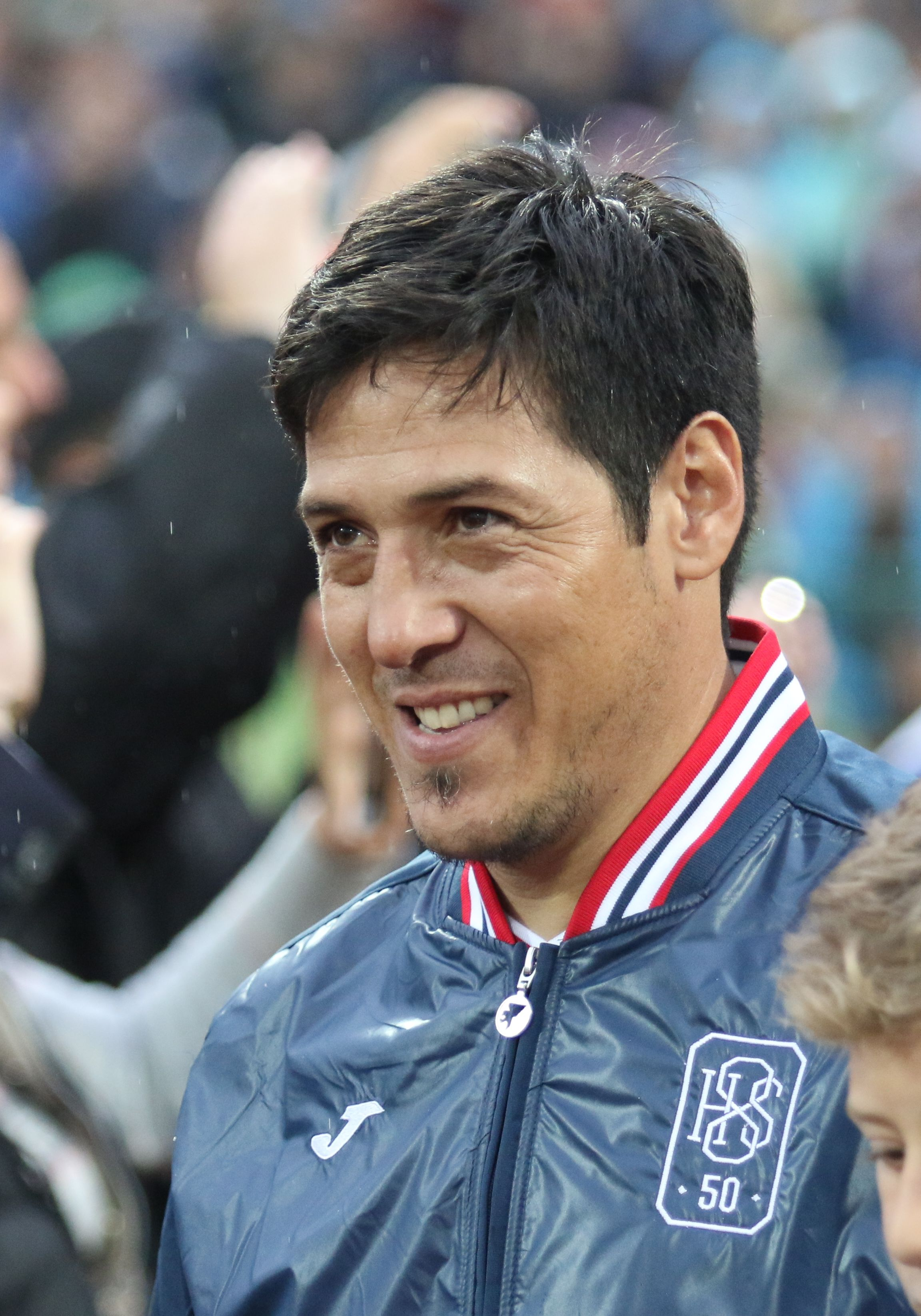 Mauro Camoranesi (born 4 October 1976) is a Italian football manager and former player who played as a winger.